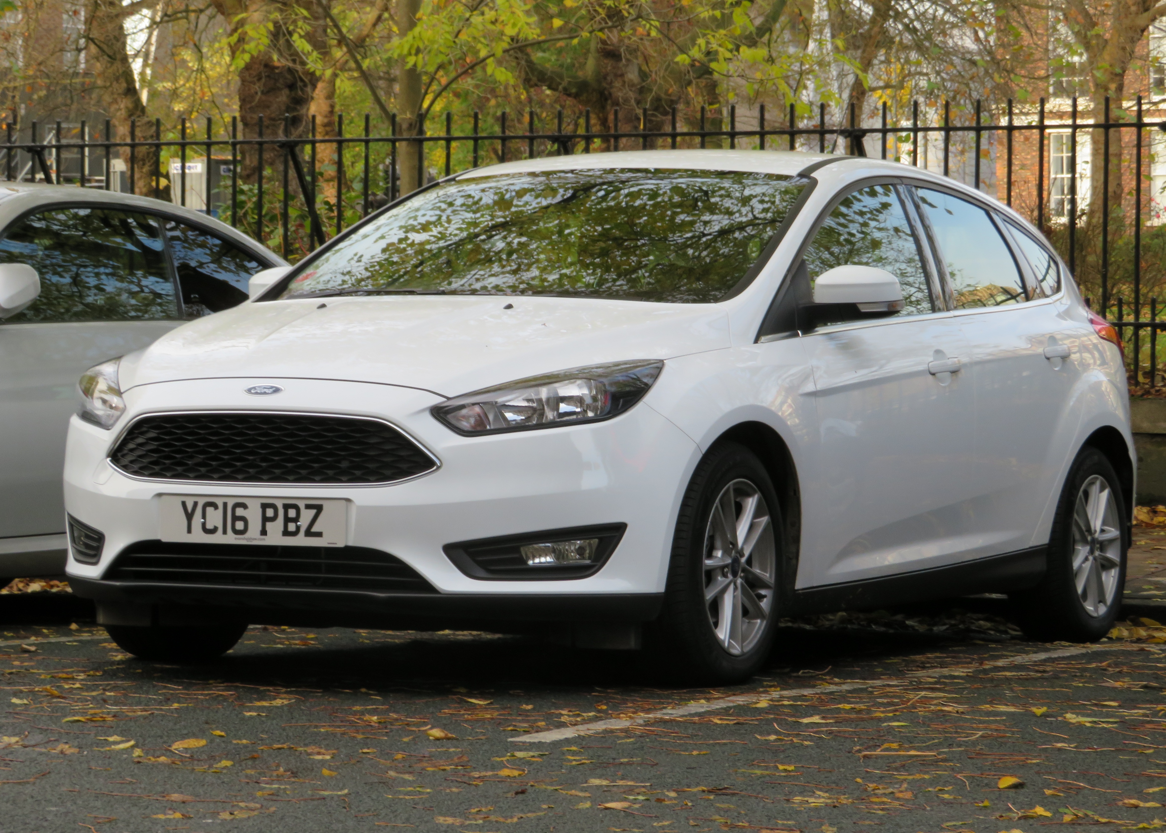 Ford Focus in Abercromby Square Note that license plate has been changed for anonymisation purposes. Year code remains correct, however.